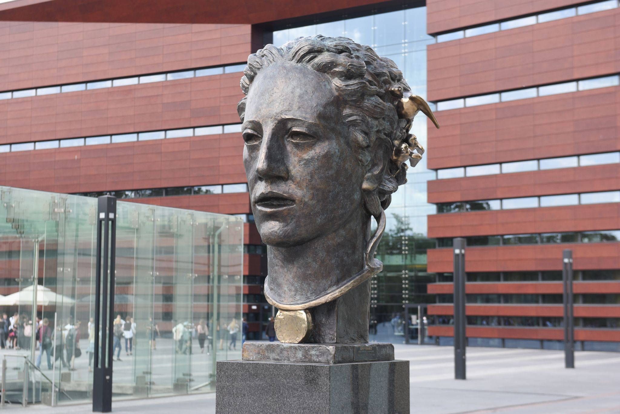 Head of Orpheus. Sculpture is located in front of the National Forum of Music in Wrocław. The authors:Michał and Stanisław Wysocki. The author of the project: Theodor von Gosen